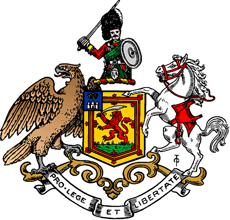 Coat of arms of the County of Perth, 1800 - 1975. Source: A.C. Fox-Davies, The Book of Public Arms (T. C. & E. C. Jack, London, 1915)